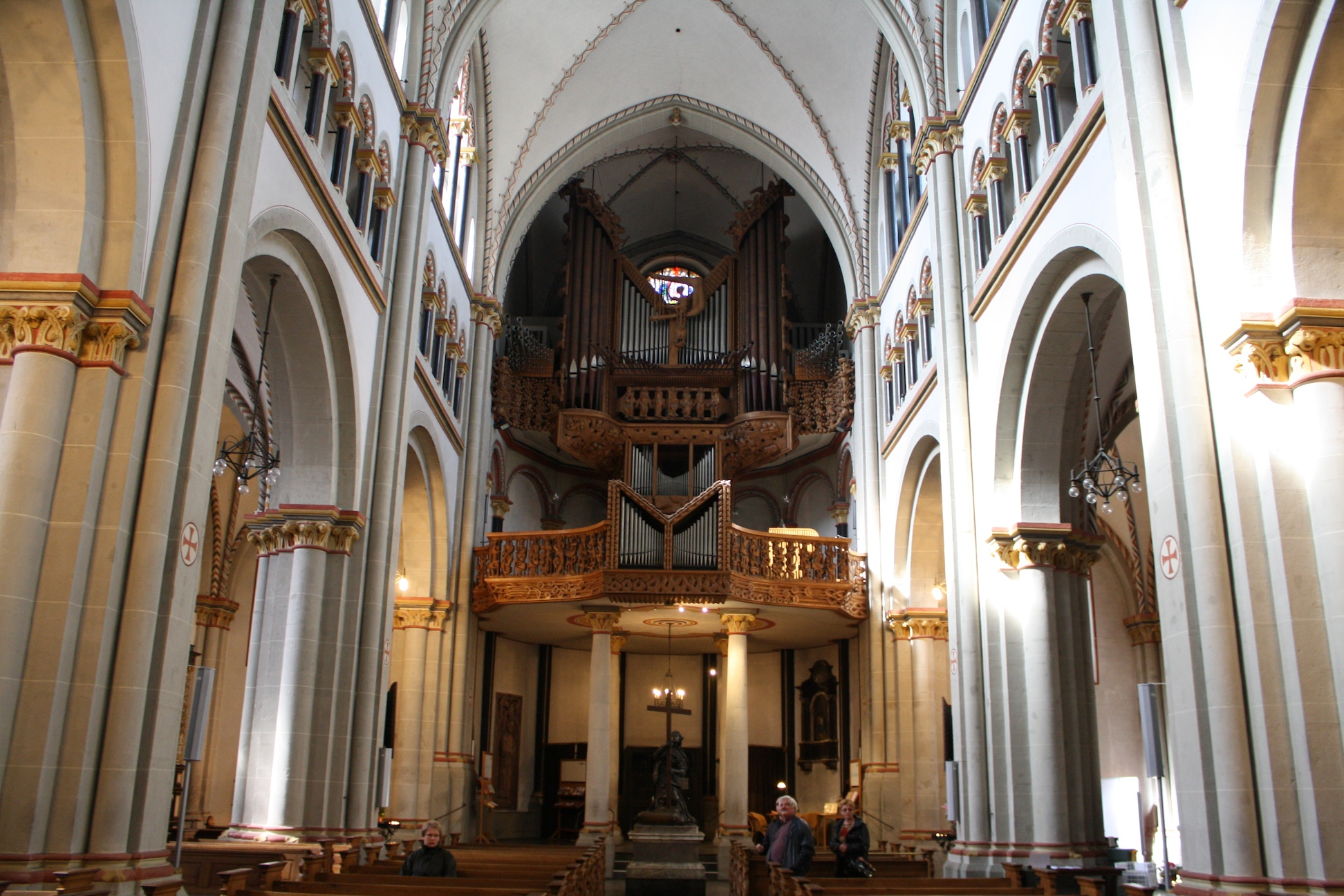 Interior view of the Bonner Münster, main nave with view to the organ Klais-Orgel.